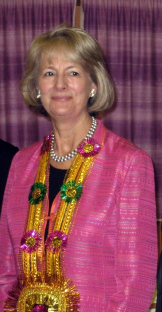 Baroness Jay of Paddington, the daughter of former Prime Minister Jim Callaghan